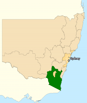 Incorporates or developed using Administrative Boundaries ©PSMA Australia Limited licensed by the Commonwealth of Australia under Creative Commons Attribution 4.0 International licence (CC BY 4.0). Derived from State and Territory Boundaries from the Australian Bureau of Statistics under Creative Commons Attribution 2.5 Australia license (CC BY 2.5 AU)